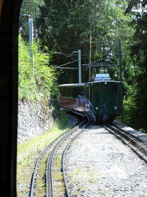 Schynige Platte-Bahn